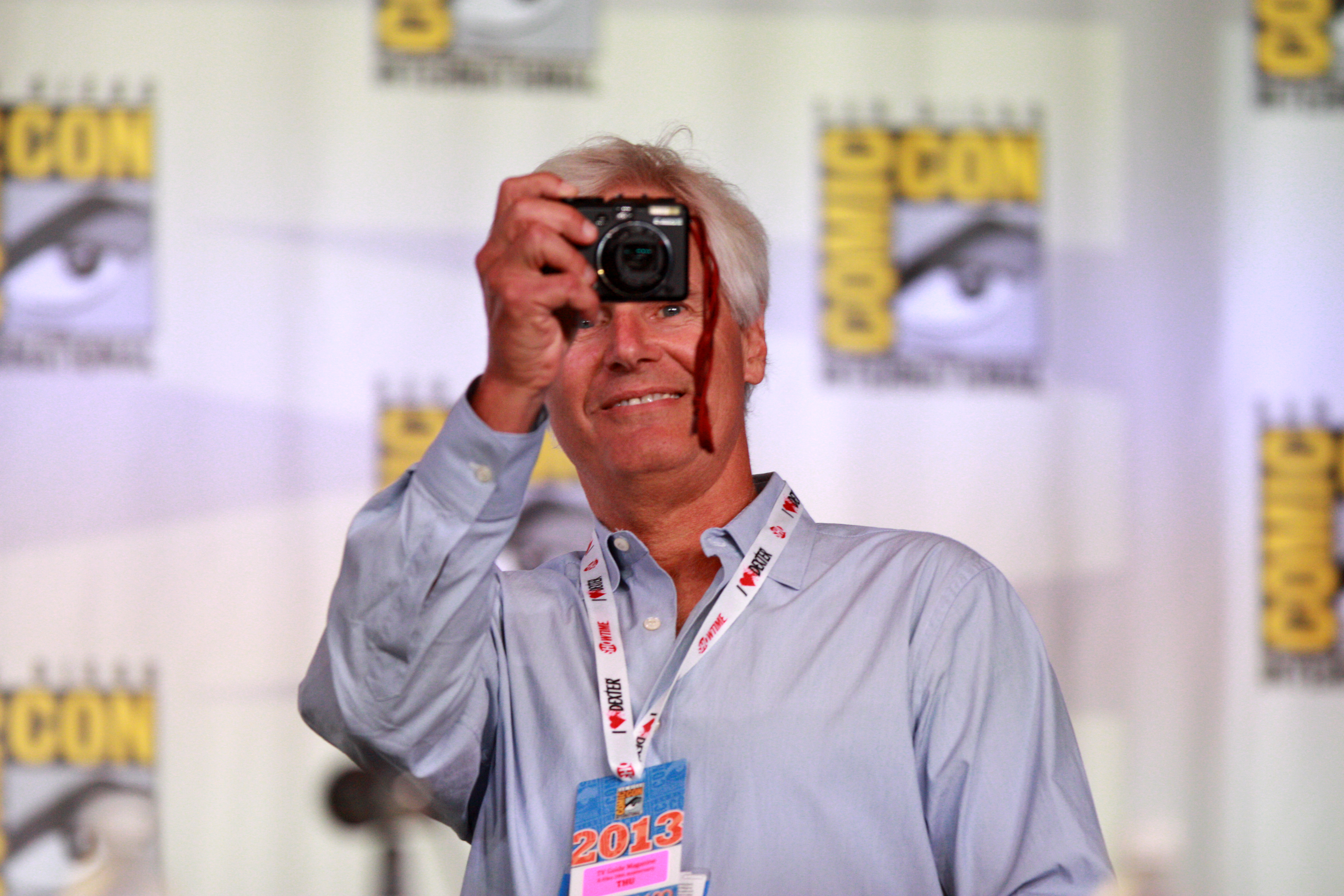 Chris Carter speaking at the 2013 San Diego Comic Con International, for "The X-Files" 20th Anniversary panel, at the San Diego Convention Center in San Diego, California.